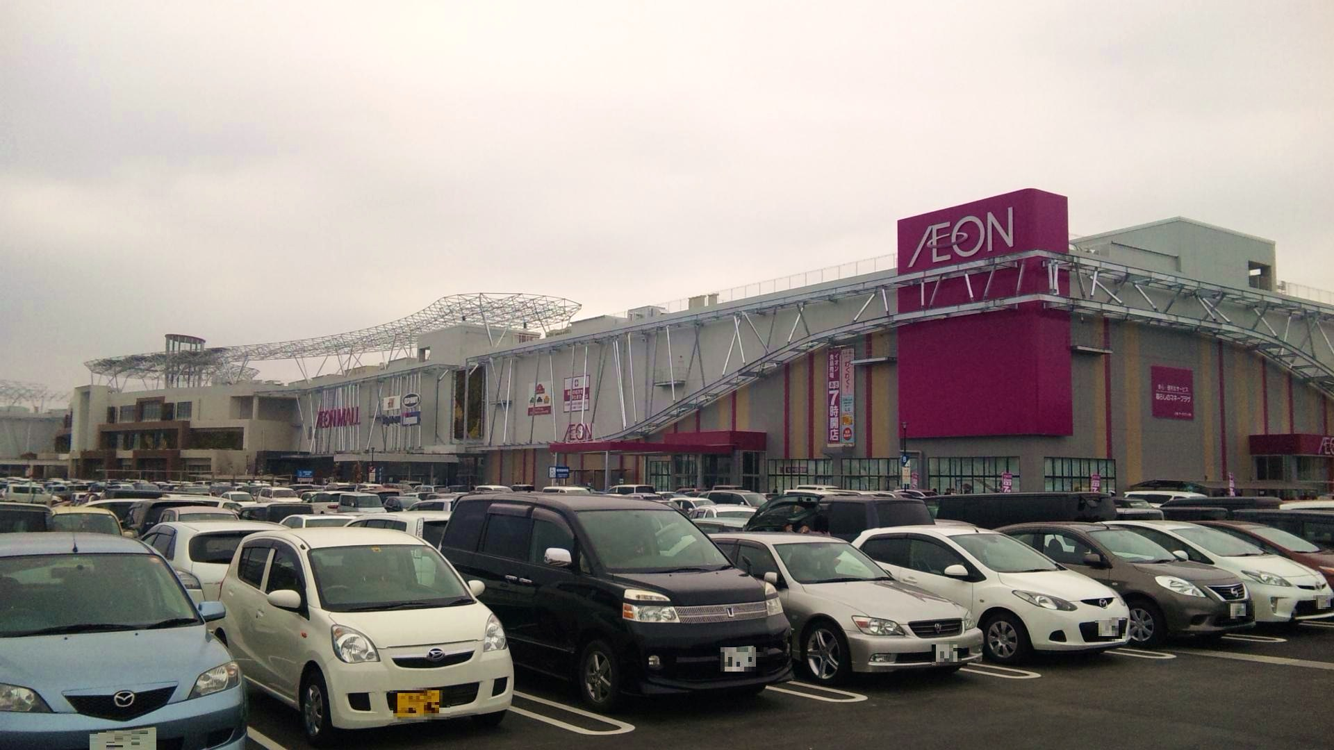 Tsukuba city, Ibaraki, "Aeon Mall Tsukuba" in appearance.